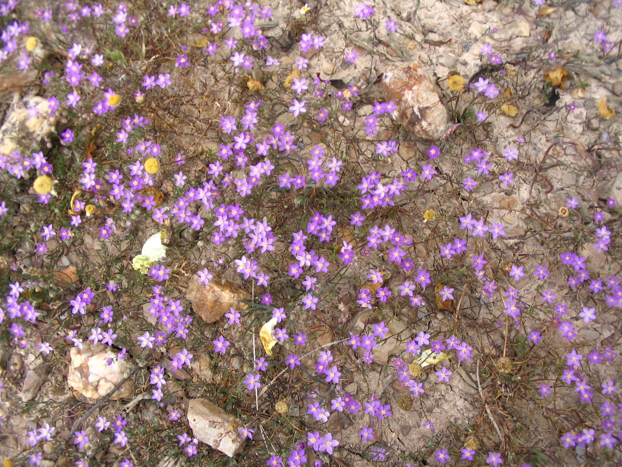 Spergularia purpurea